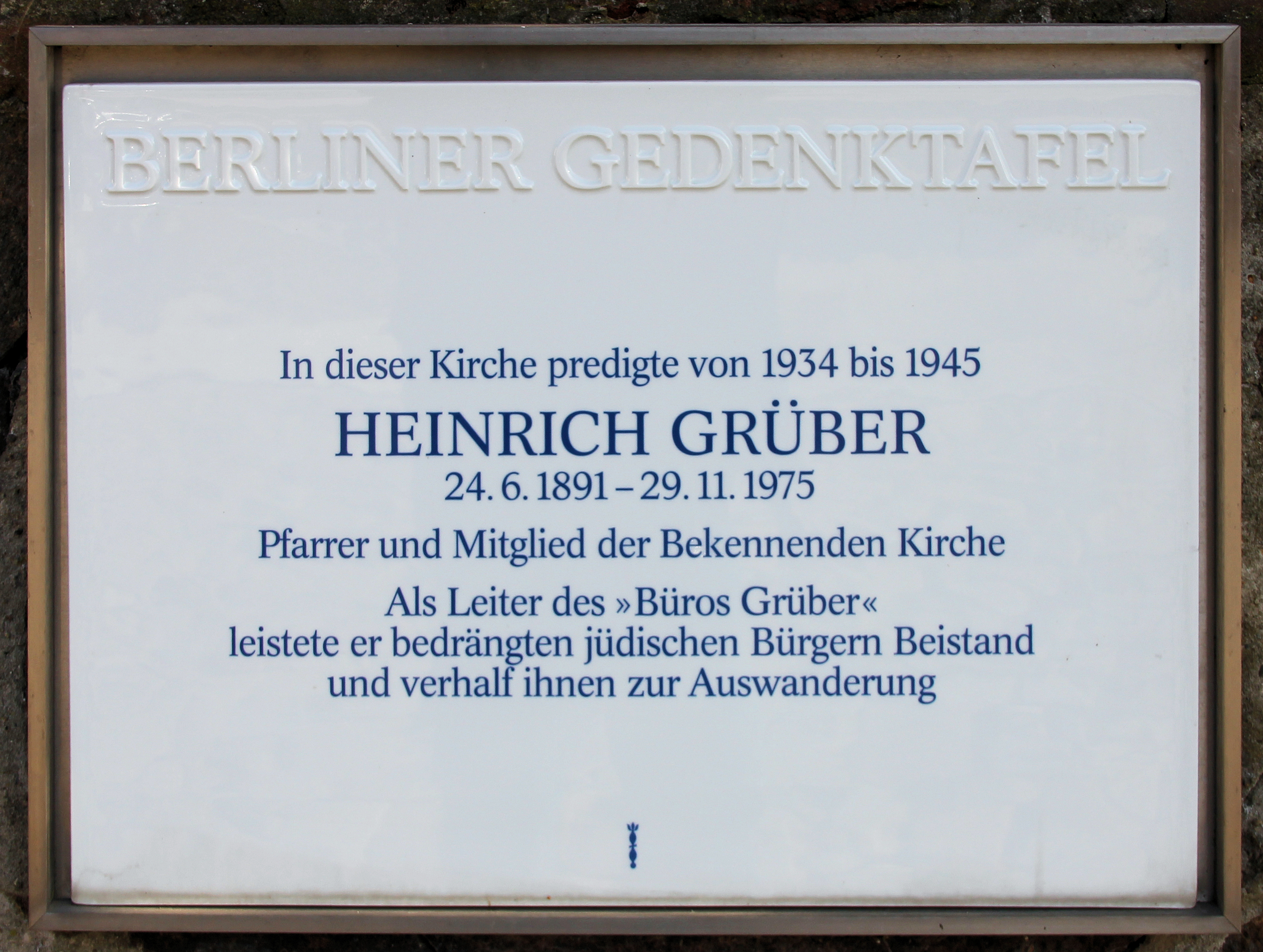 Berlin memorial plaque, Heinrich Grüber, Dorfstraße 10, Berlin-Kaulsdorf, Germany Koordinate:52°30′29″N 13°34′50″E / 52.50806°N 13.58056°E